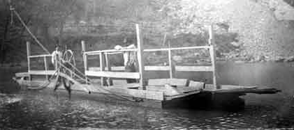 This photo depicts the wooden Aultsville Ferry which ran between Aultsville, Ontario and Louisville, New York from the mid-1800s until the 1930s.